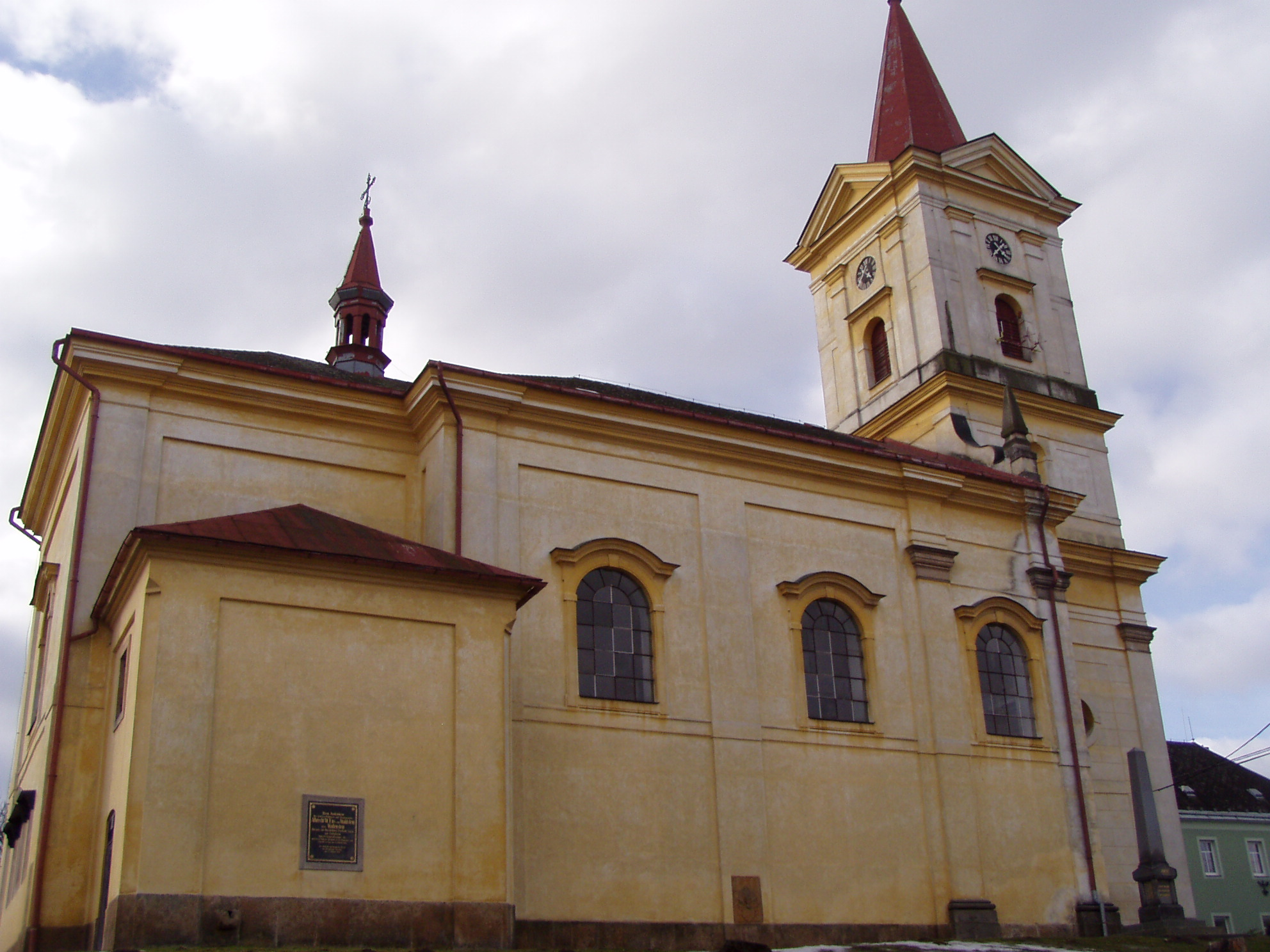 Heřmanice - Church of St. Mary Magdalene